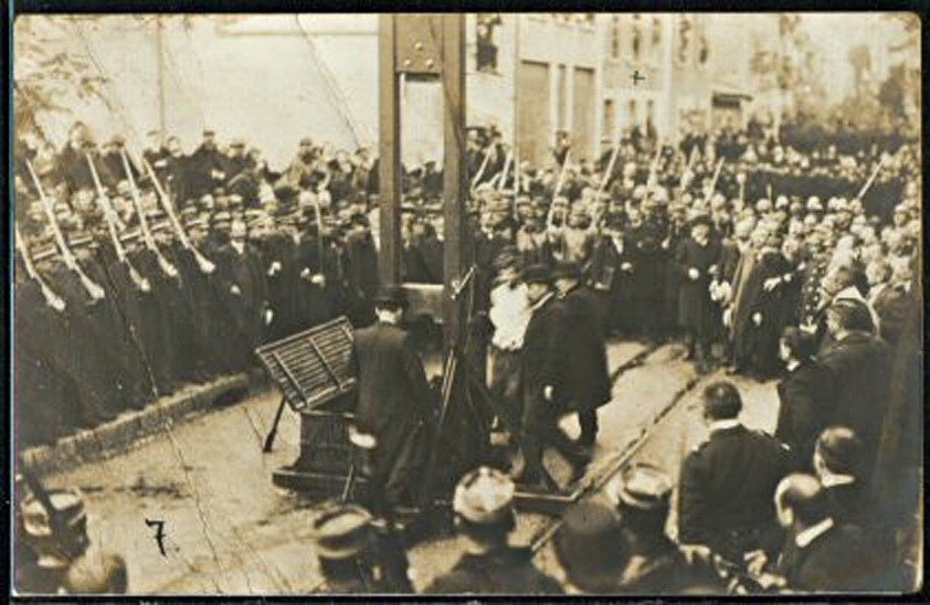 Triple execution by guillotine of Urbain Liottard, Louis Berruyer and Octavive David, famous french outlaws, on September the 22th, 1909. They were nicknamed the "Chauffeurs de la Drôme" because they tortured their victims with fire.